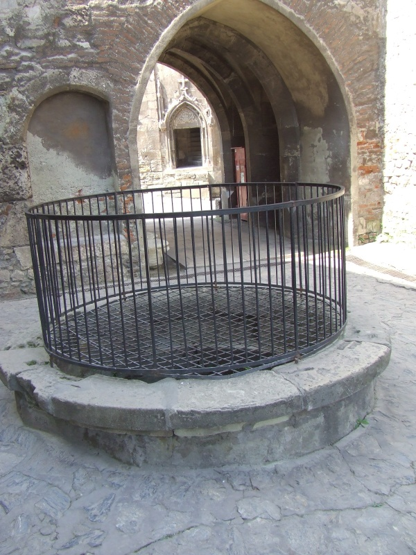 The Castle of Hunedoara (also known as Corvins' Castle), Hunedoara County, Romania